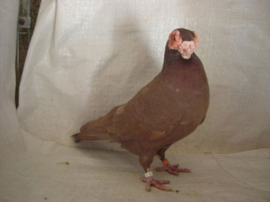 pigeon